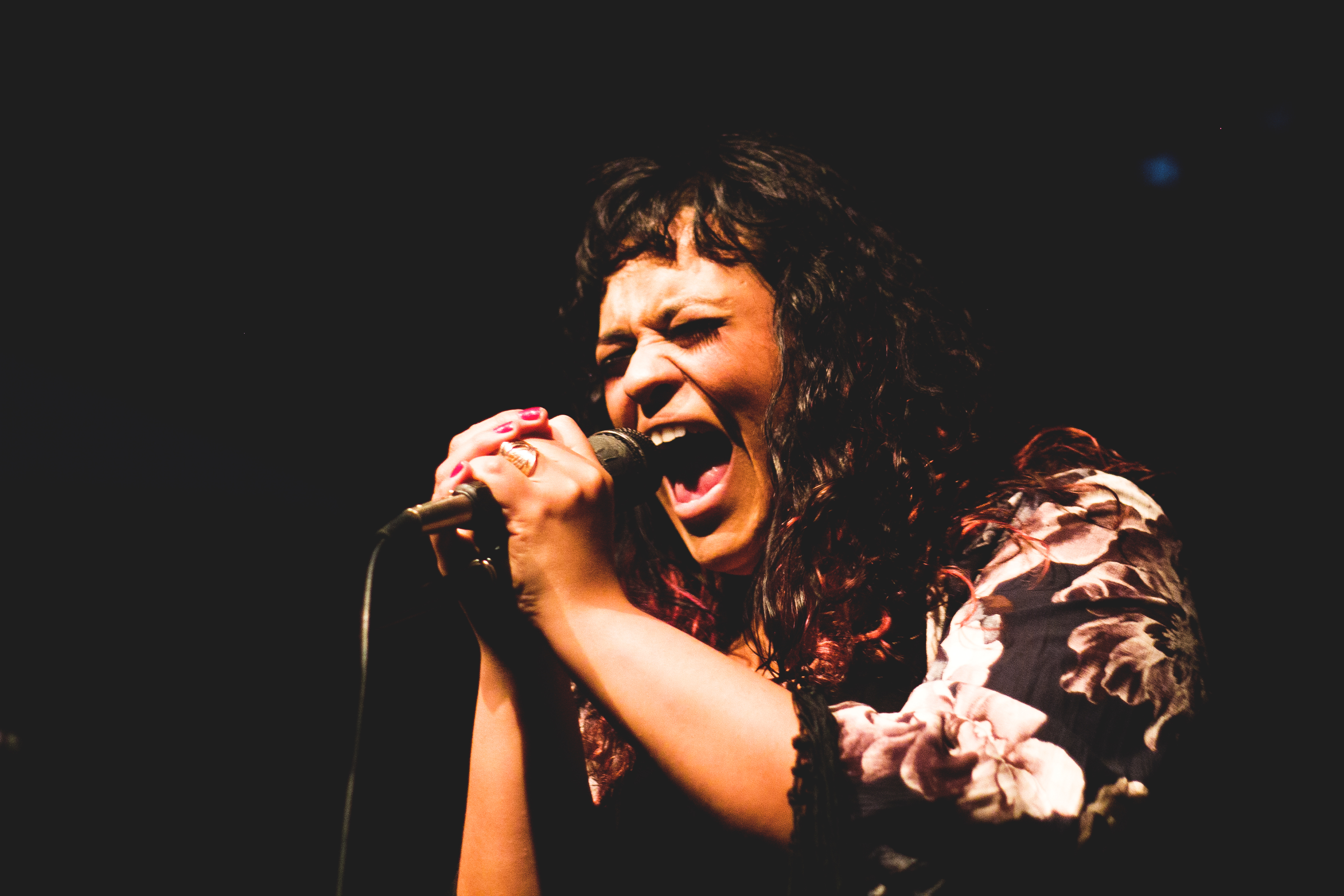 Tulipa Ruiz performing at Virada Sustentável in São Paulo